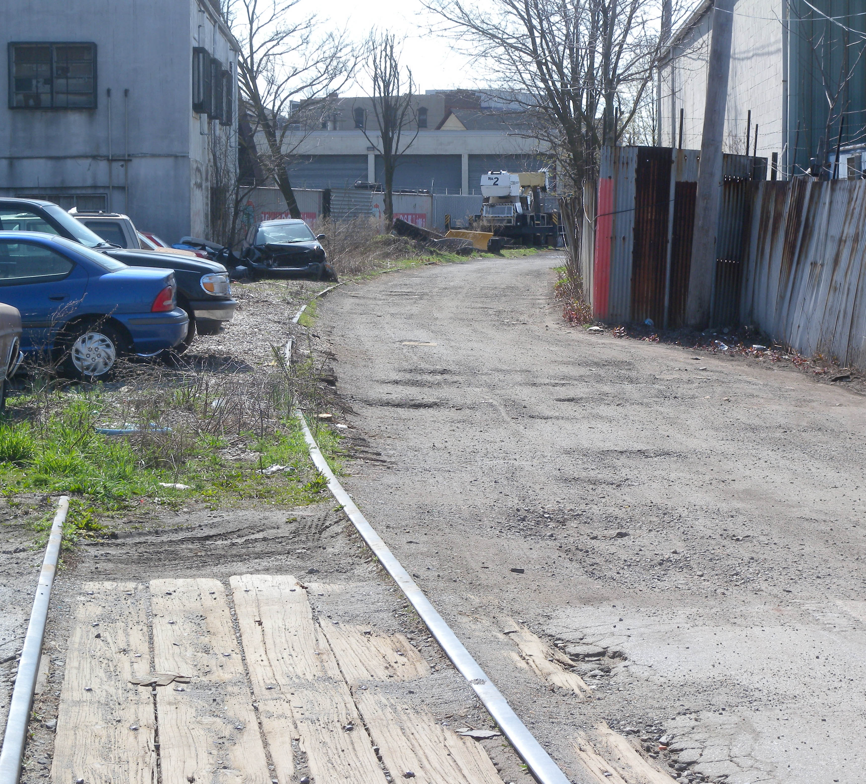 Looking west at abandoned track through a boatyard on a sunny midday.